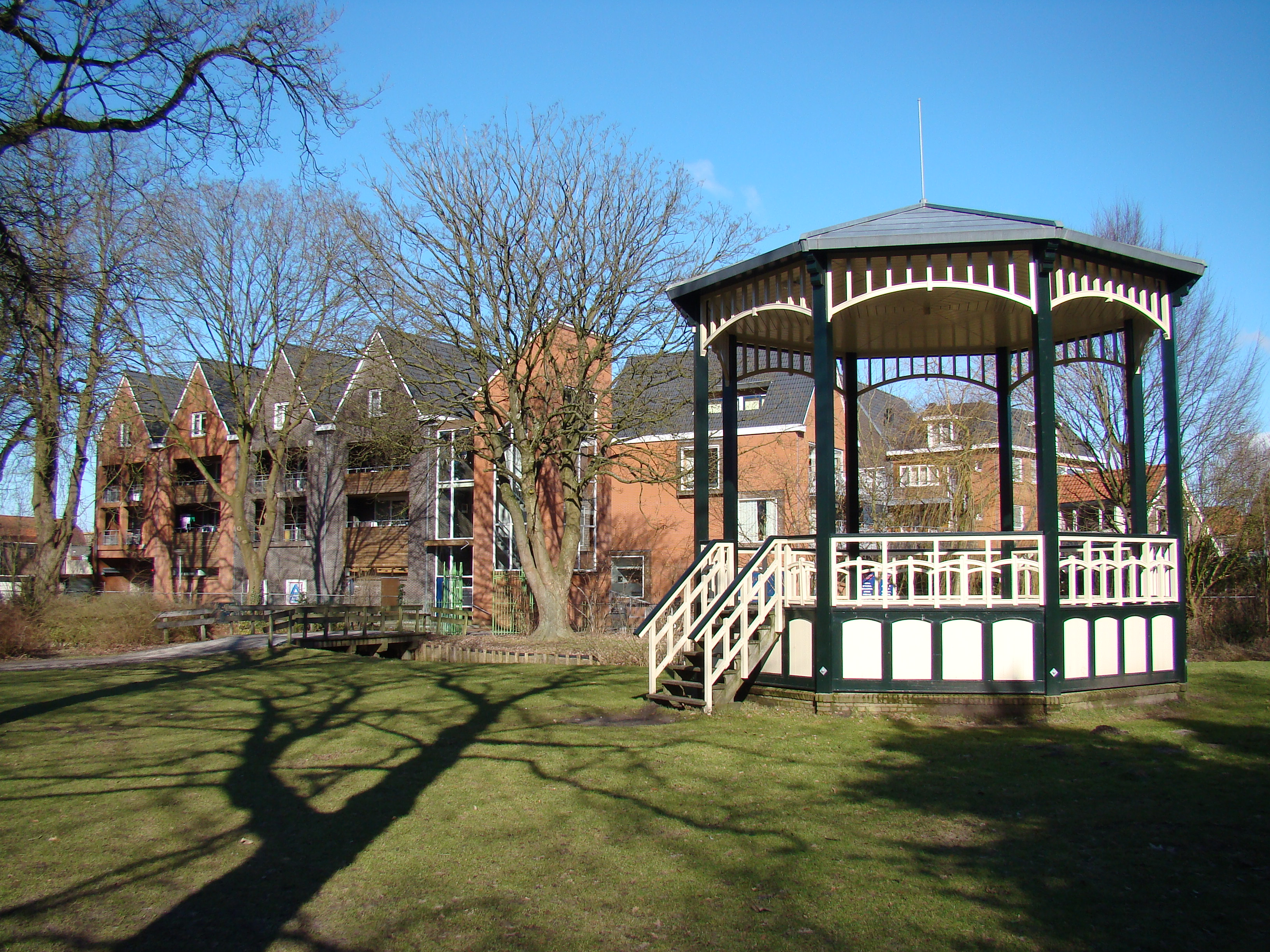 Cityparc at Steenwijk. Netherlands